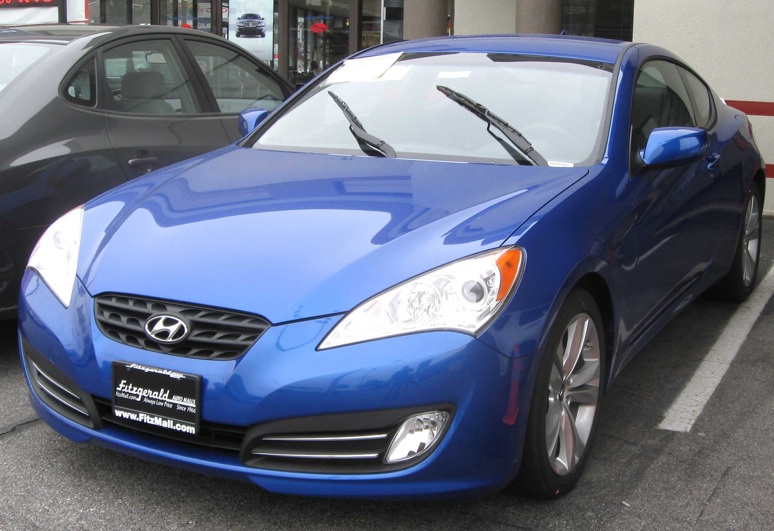 2010 Hyundai Genesis Coupe photographed in Rockville, Maryland, USA.